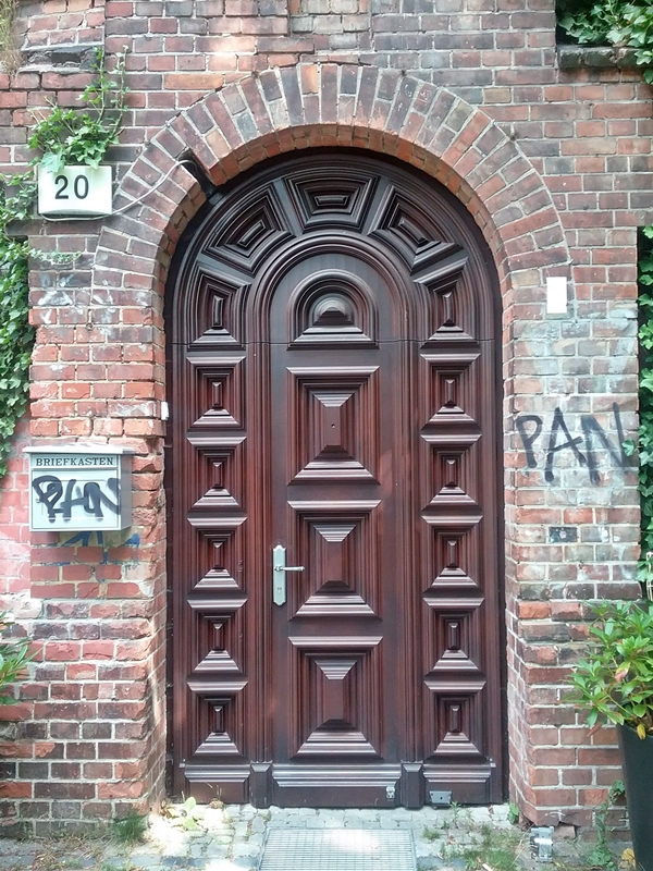 Entrance water tower Hohenschönhausen